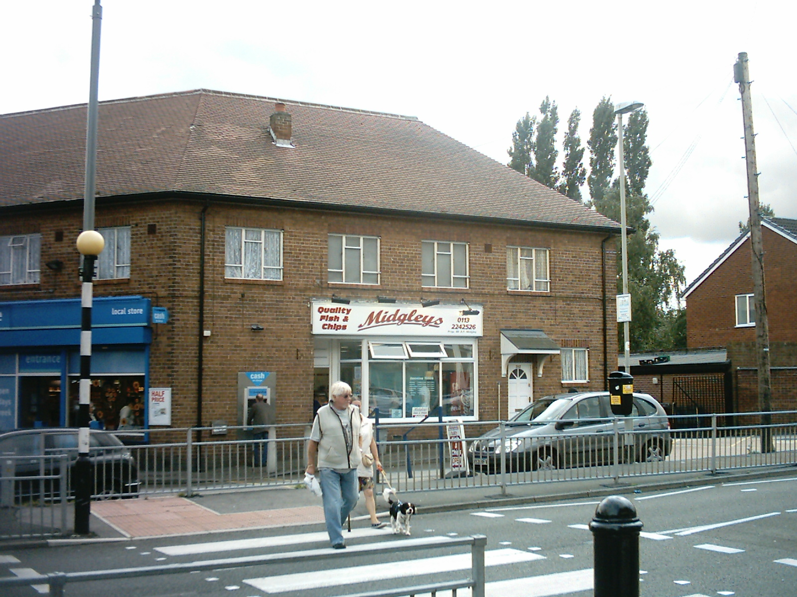 Midgleys (as used in Fat Friends) fish and chip shop on Butcher Hill/Spen Lane parade of shops, Moor Grange, Leeds.